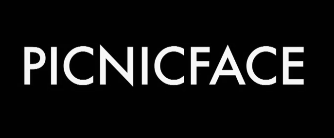 The Picnicface logo from the title sequence.